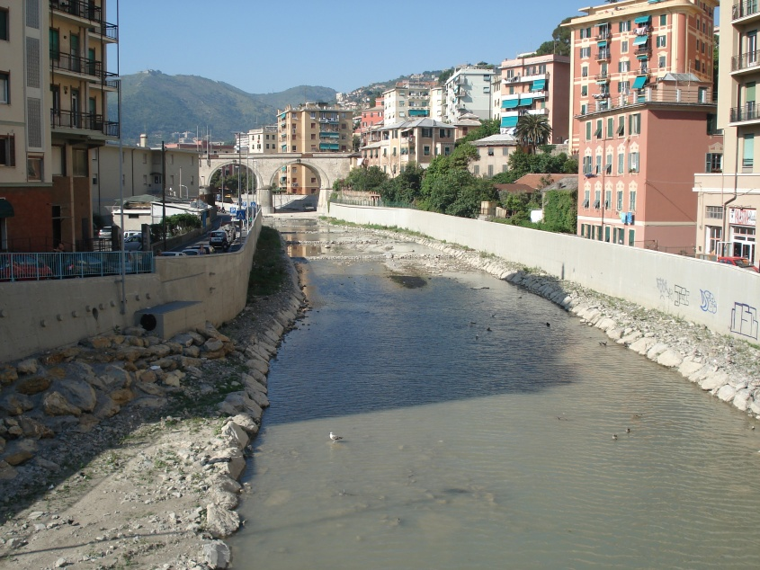 Sturla river in Genova